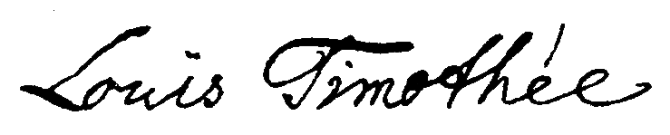 Louis Timothee signature